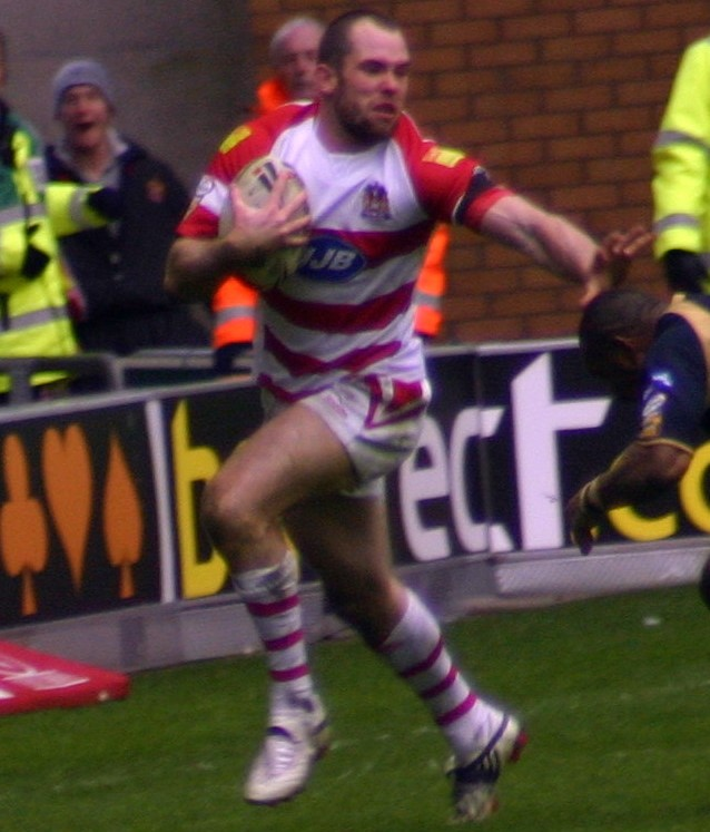 Pat Richards